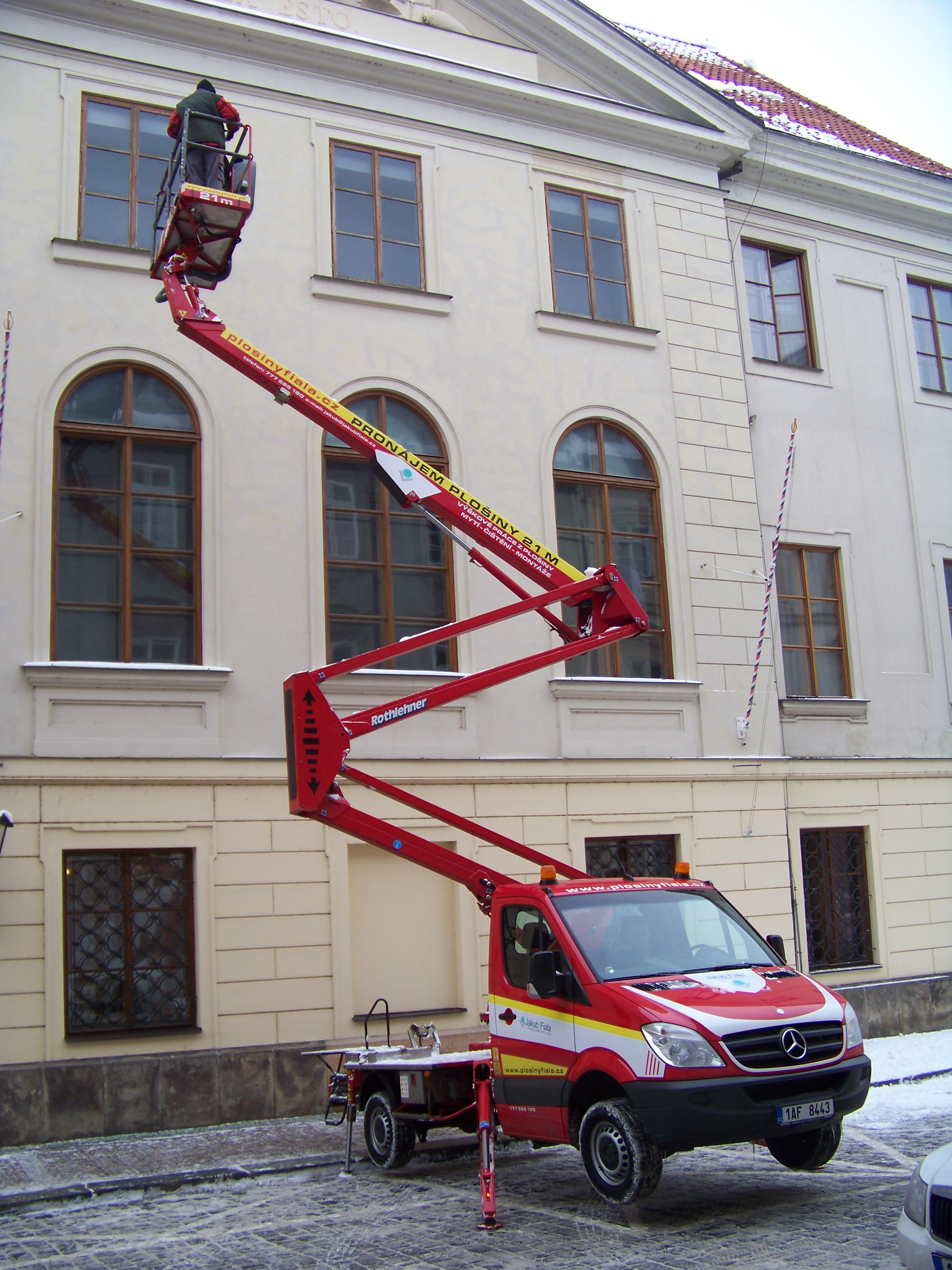 Prague-Malá Strana, the Czech Republic. Sněmovní Street.